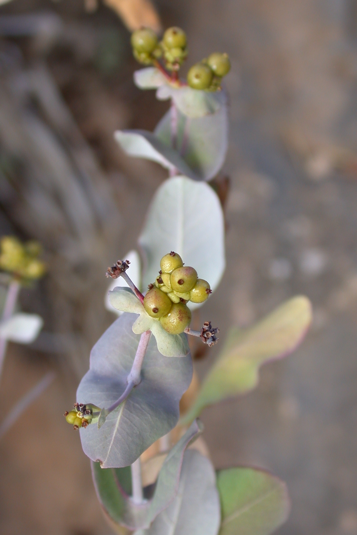 Lonicera etrusca G.Santi, fruits, Mount Carmel, Israel, June 7, 2008.